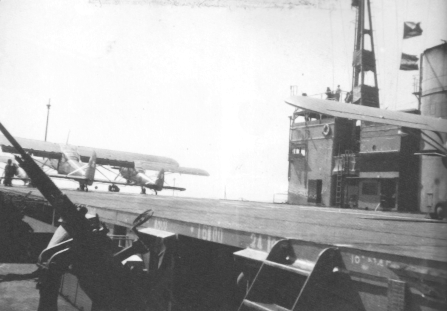 Kokusai Ki-76 spotter planes on deck of Imperial Japanese Army landing vehicle carrier Akitsu Maru